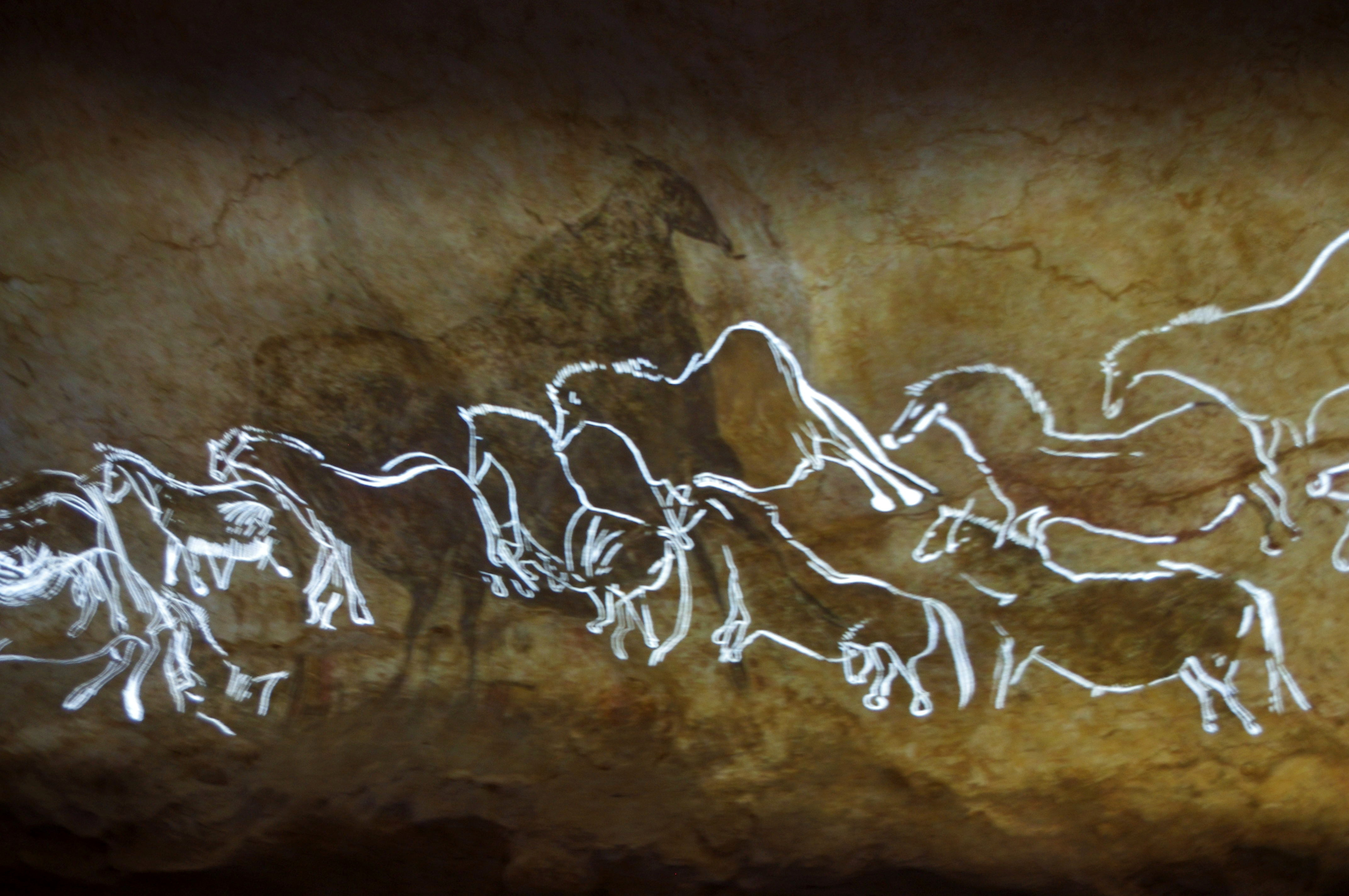 Lascaux 4, Montignac, Dordogne, France. Pictures takes in the part called atelier.